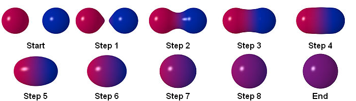 Part of a series of 2 differently colored metaballs, and how they interact with each other. The series was created using Bryce, for illustrating the wikipedia article on metaballs.